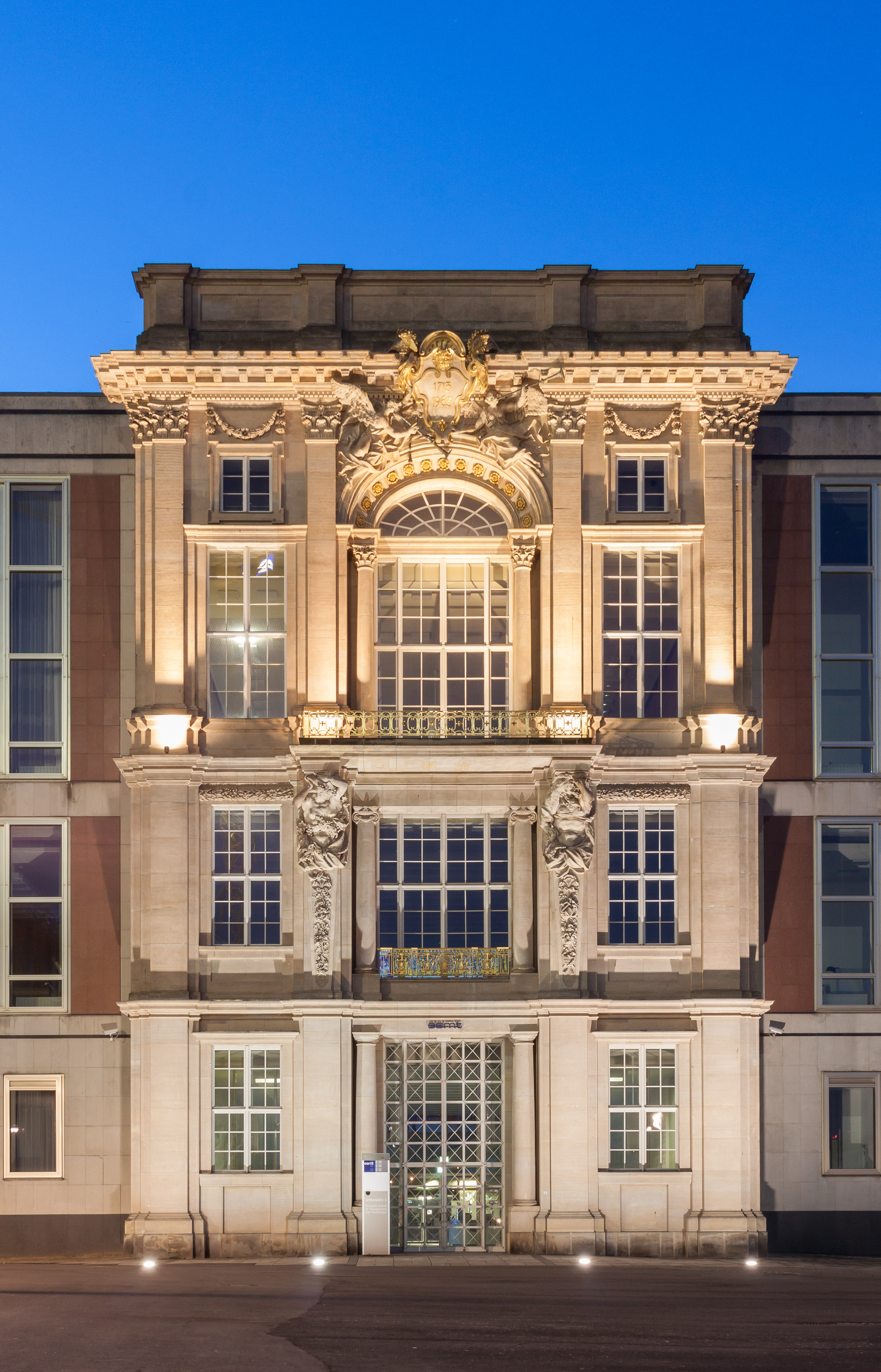 The so-called "Karl-Liebknecht-Portal" in the State Council building in Berlin. It is the former entrance IV of the Berlin City Palace. From its balcony Karl Liebknecht proclaimed the "Socialist Republic" on November 9, 1918.